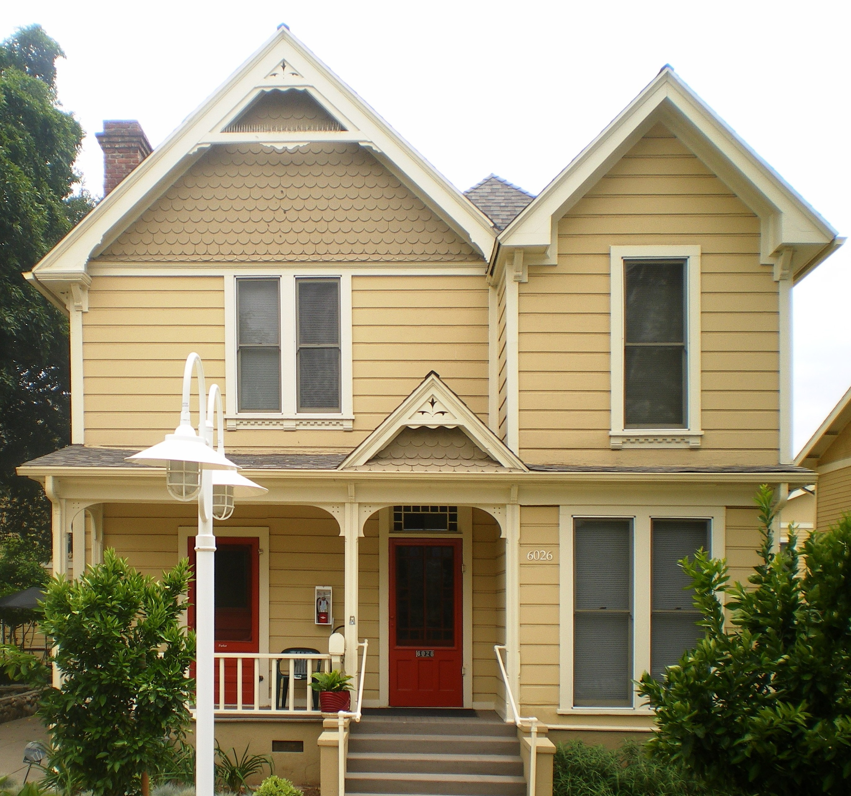 Pisgah Home Historic District. At 6026 Echo St., in the Highland Park district, Northeast Los Angeles, Southern California.